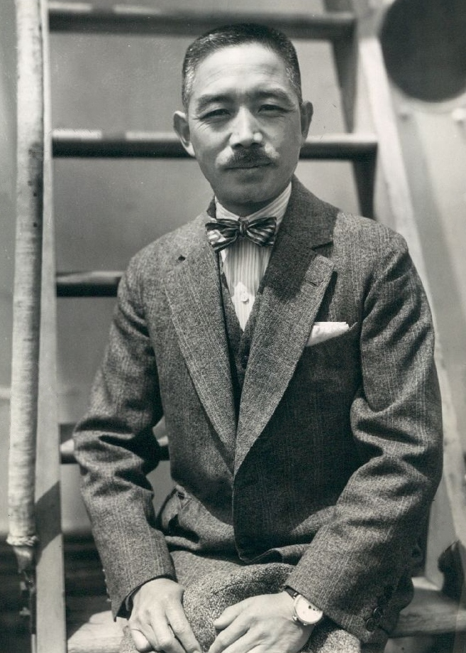 1932 Major Shunzo Kido Japanese Premier Horseman & Olympic Captain Press Photo